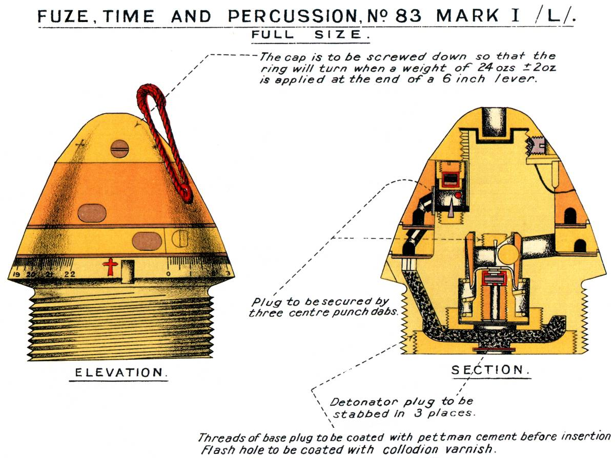 Diagram of British Time and Percussion Fuze No. 83 Mk I, Land service. Similar to No 81 except it is made of metal. The stirrup spring for the time pellet is stronger. Time of burning at rest : 30 seconds. Listed in 1915 for use with shrapnel shells for the following guns :- BL 60 pounder gun